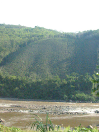 A Photo of the River Mayo as it flows through the Peruvian village of Solo, 30/7/2005 Ariasne 18:45, 25 October 2006 (UTC)